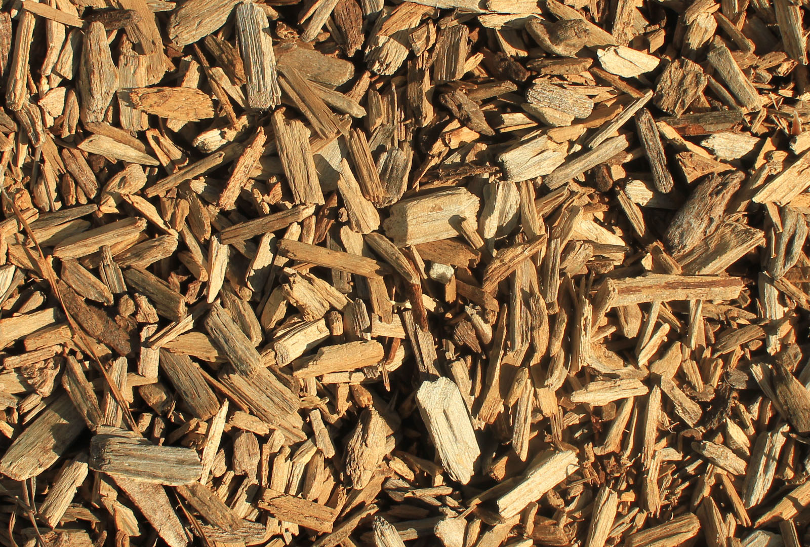 Textures and Patterns Wood chips on the playground